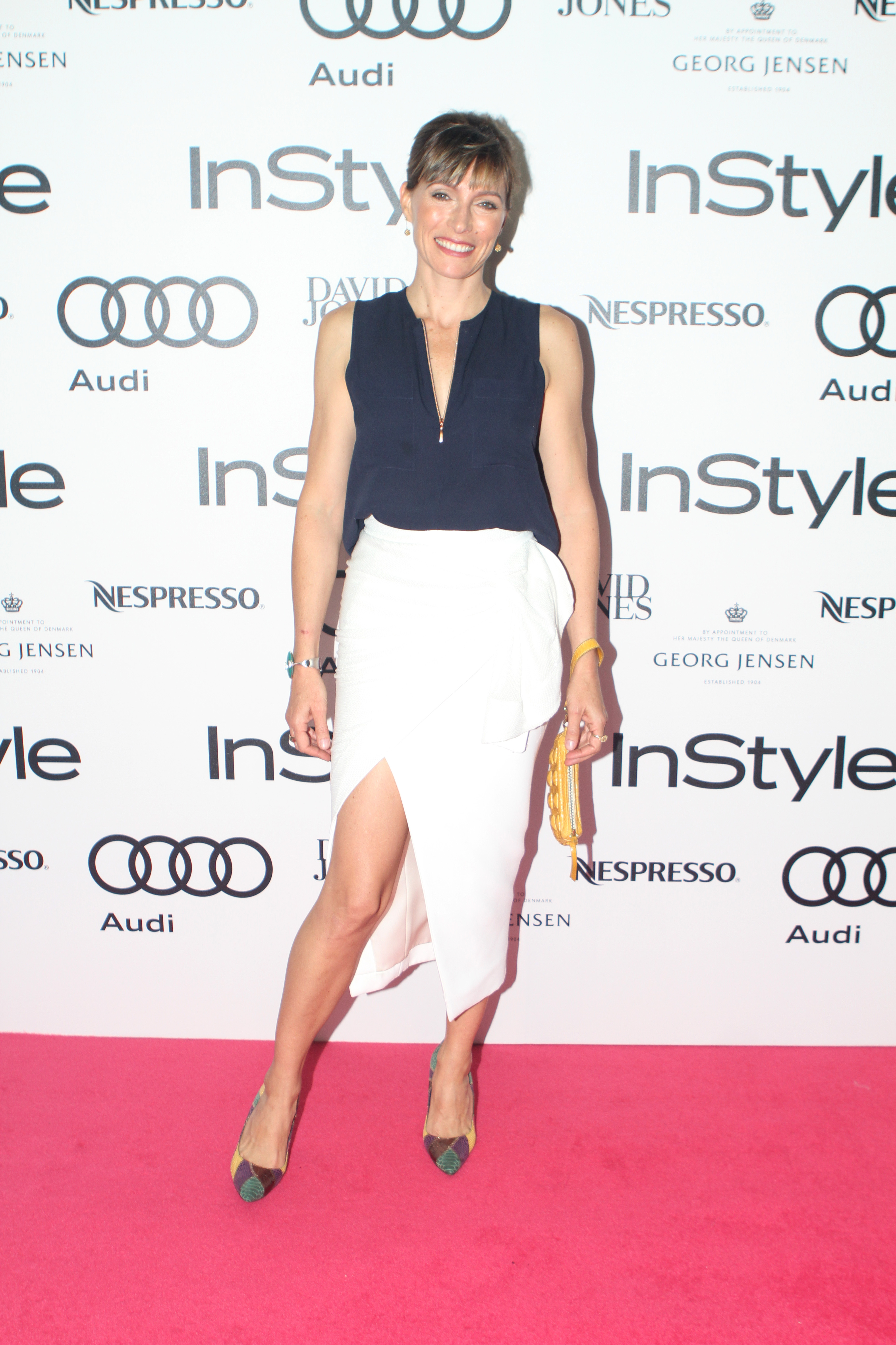 Instyle Awards 2015 InStyle and Audi Host Seventh Annual Woman Of Style Awards Red Carpet Gala Event